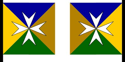 Reconstruction of Calasparra's flag.